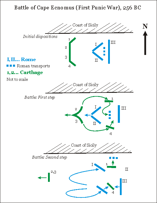 A map of the phases of the Battle of Ecnomus, in 256 BC